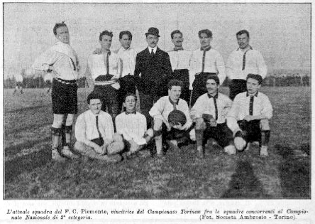 Piemonte FC in 1910.